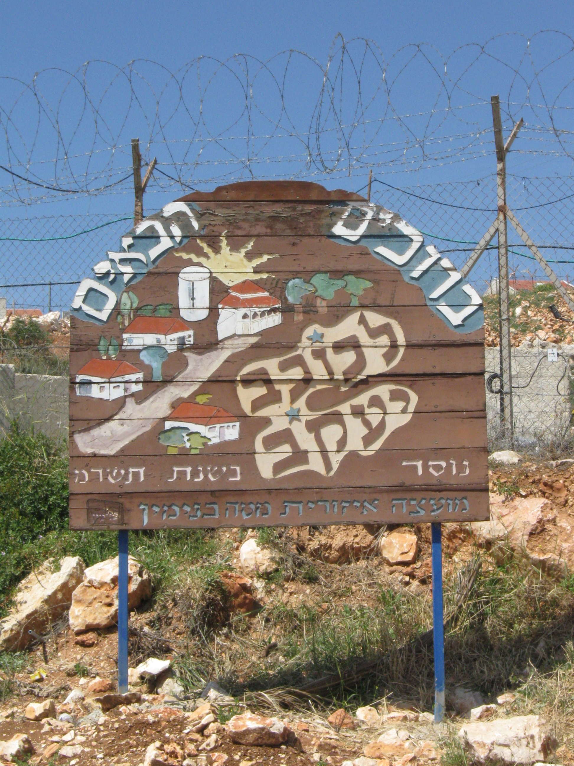 Sign at the entrance to Kokhav Ya'akov, a religious communal settlement in central Israel.